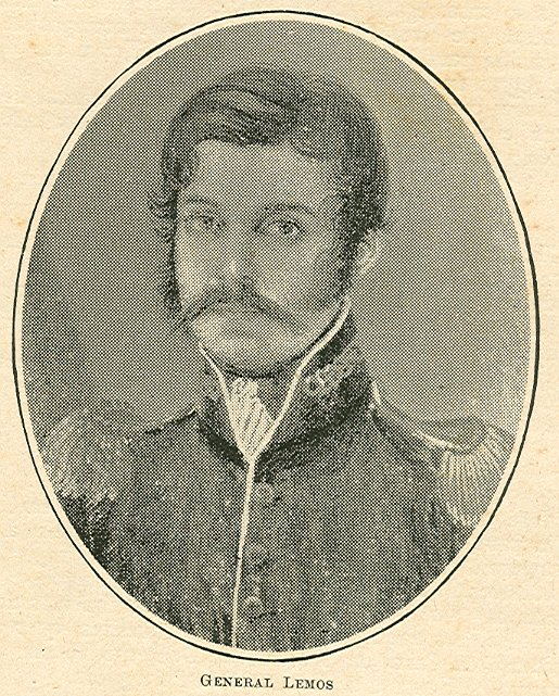 Picture of the General Lemos, commander in chief of the armies of King Miguel I of Portugal